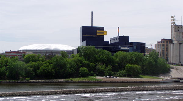 The new Guthrie Theater in Minneapolis, taken from across the Mississippi in 2006